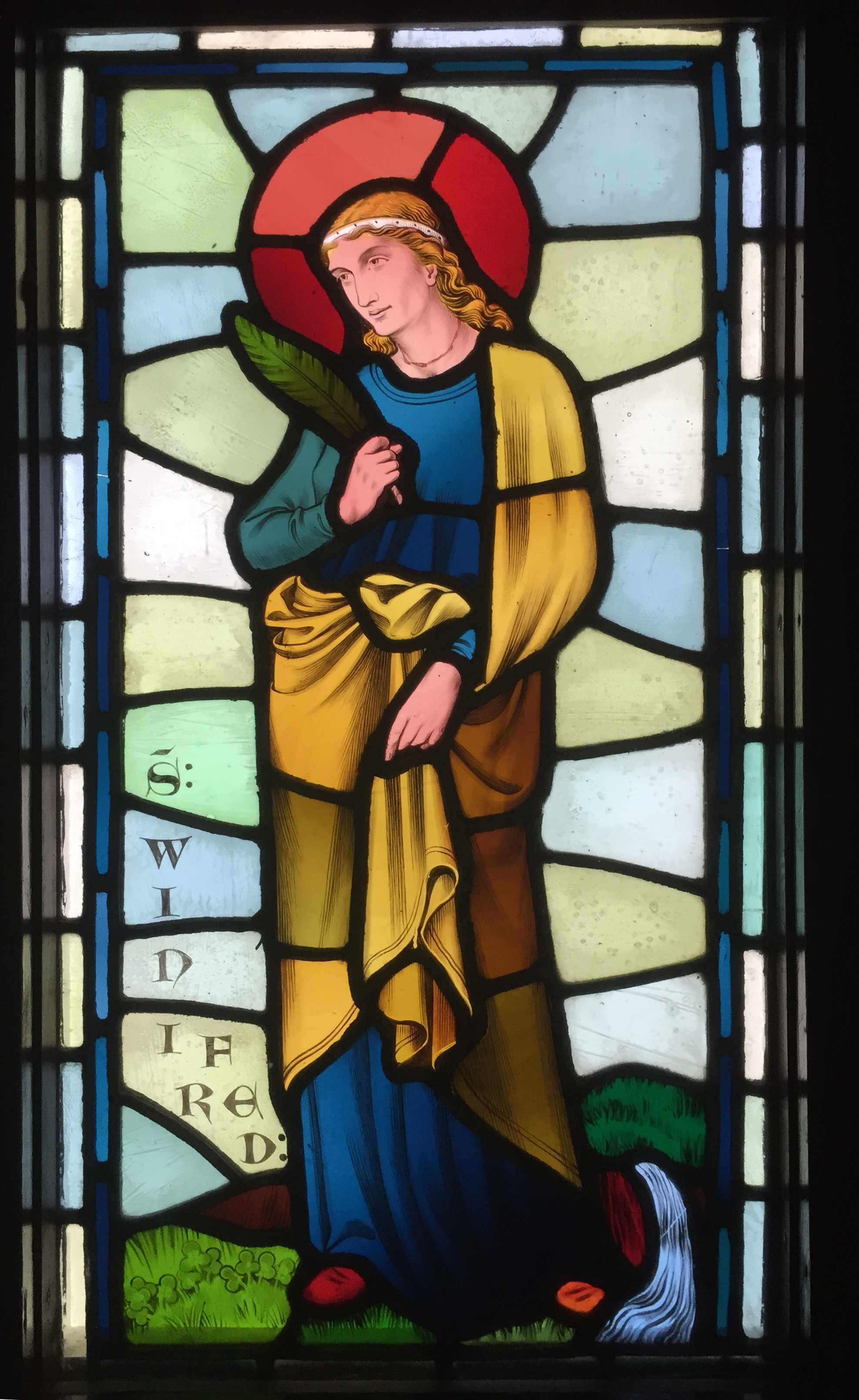 Stained glass chapel panel, originally designed by William Burges (2 December 1827 – 20 April 1881)